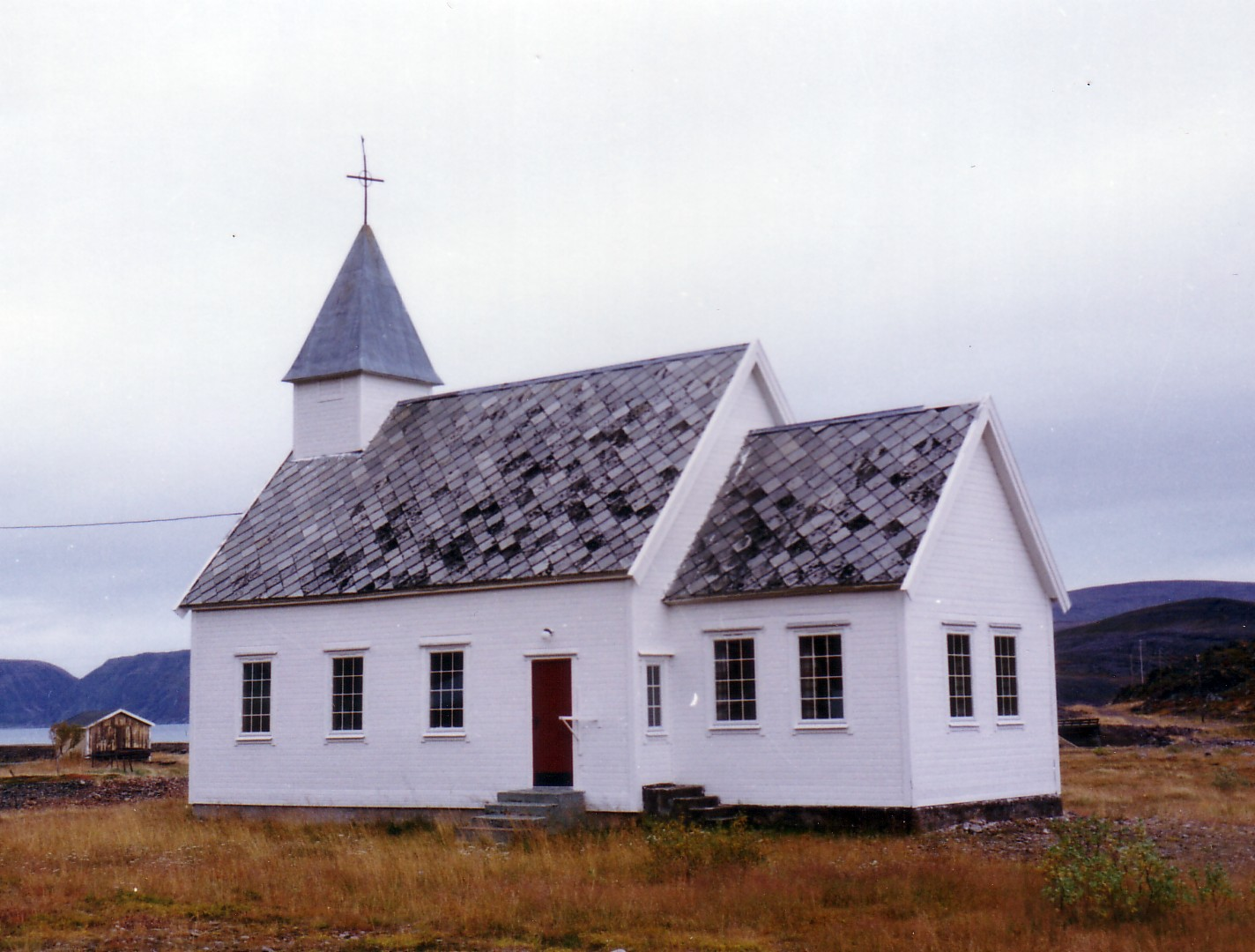 The chapel in the abandoned village of Syltefjord near Båtsfjord, Finnmark, North Norway